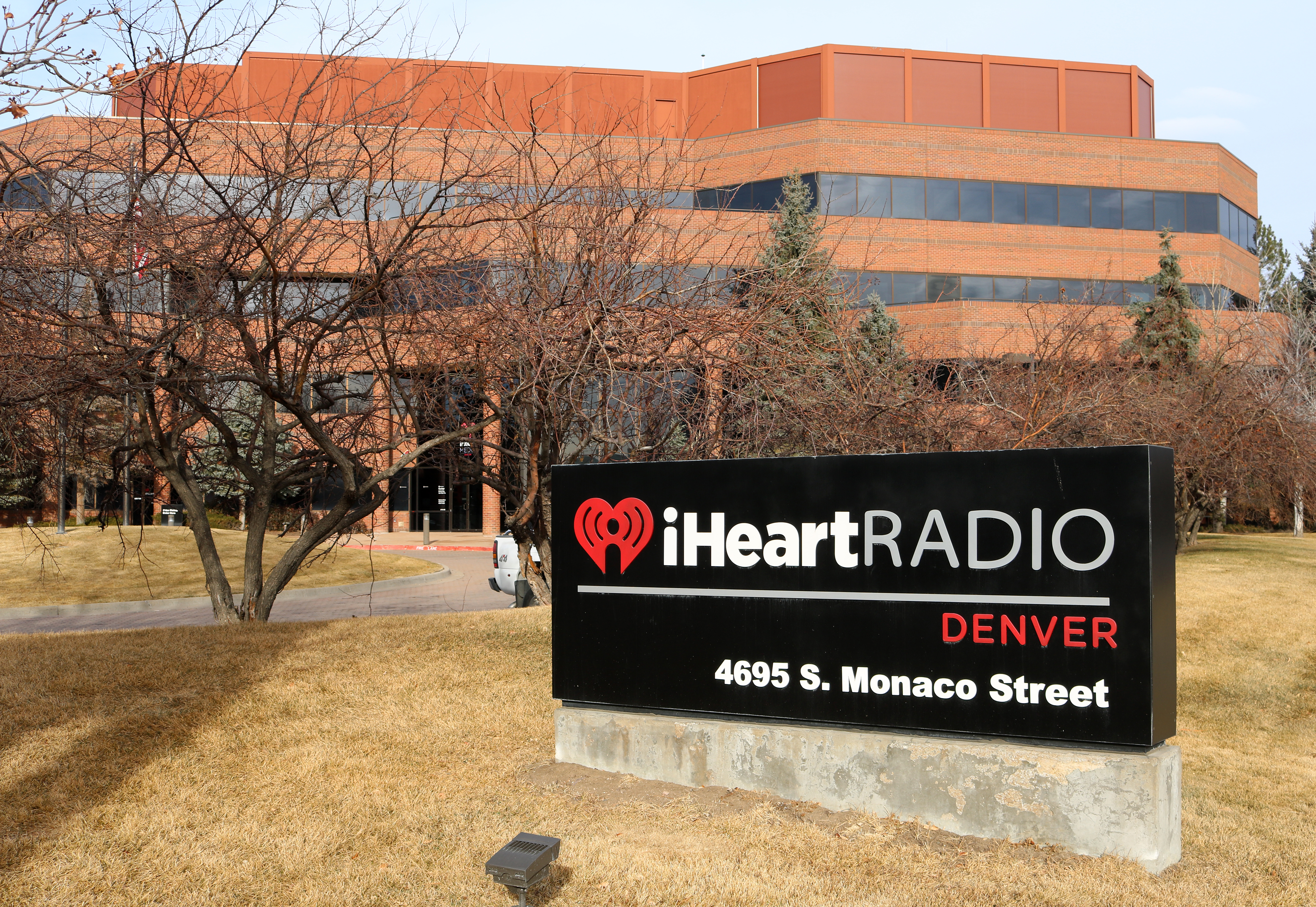 The iHeartRadio studios, located at 4695 South Monaco Street in Denver, Colorado. A picture of the same location showing a sign with the company's earlier name is here.